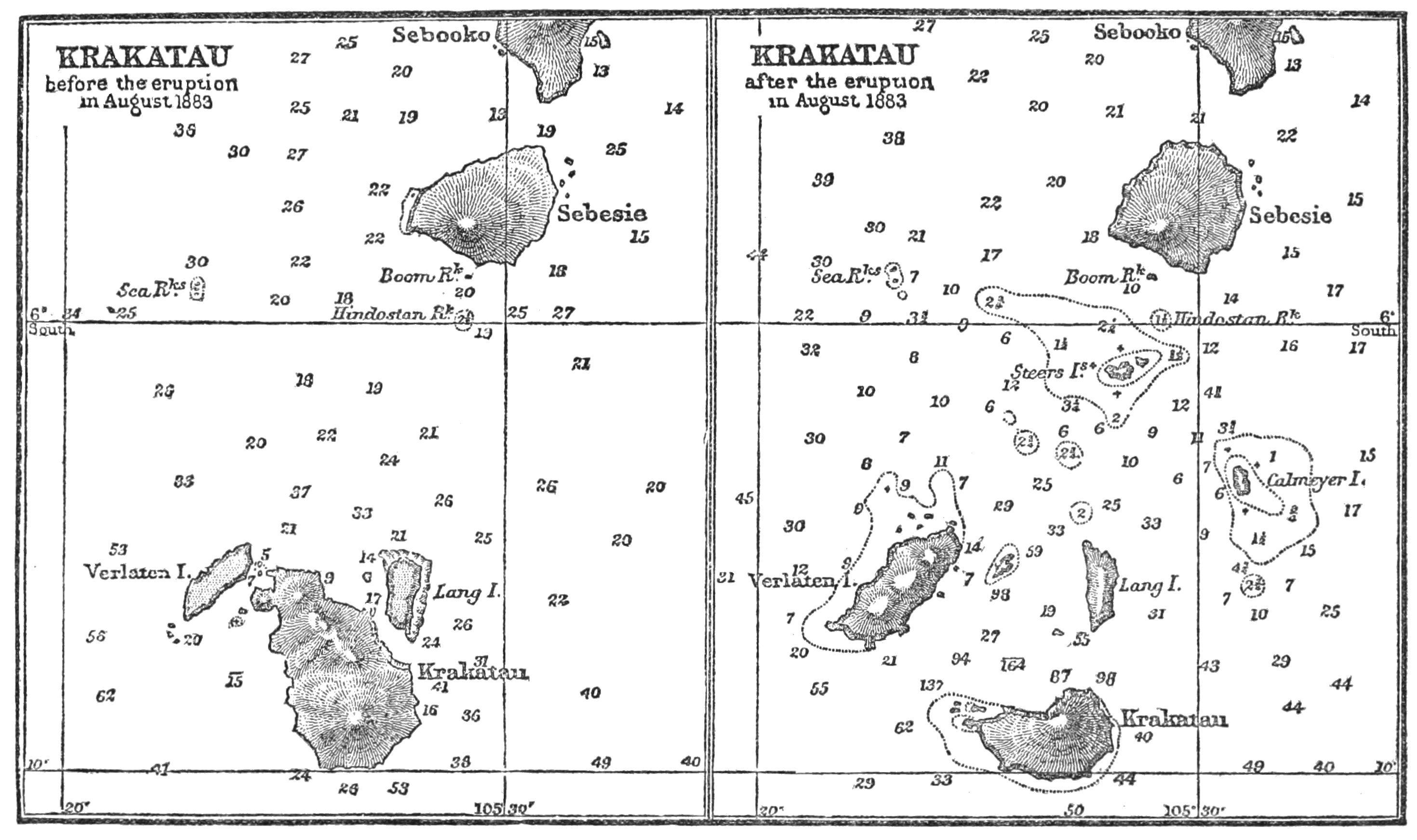 Krakatoa before after eruption in august 1883